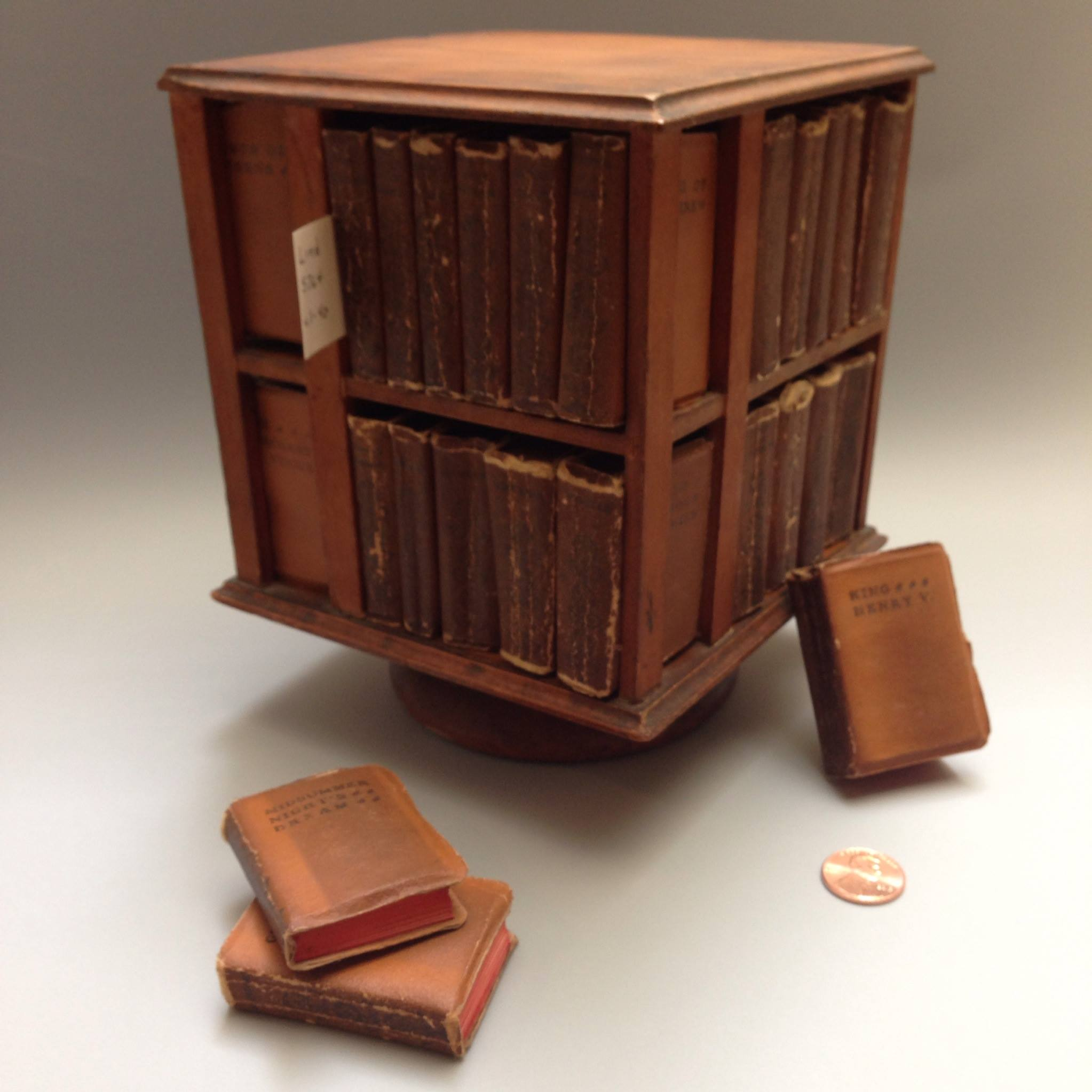 A set of miniature books comprising the complete works of William Shakespeare, housed in a wooden bookcase on a rotating stand.